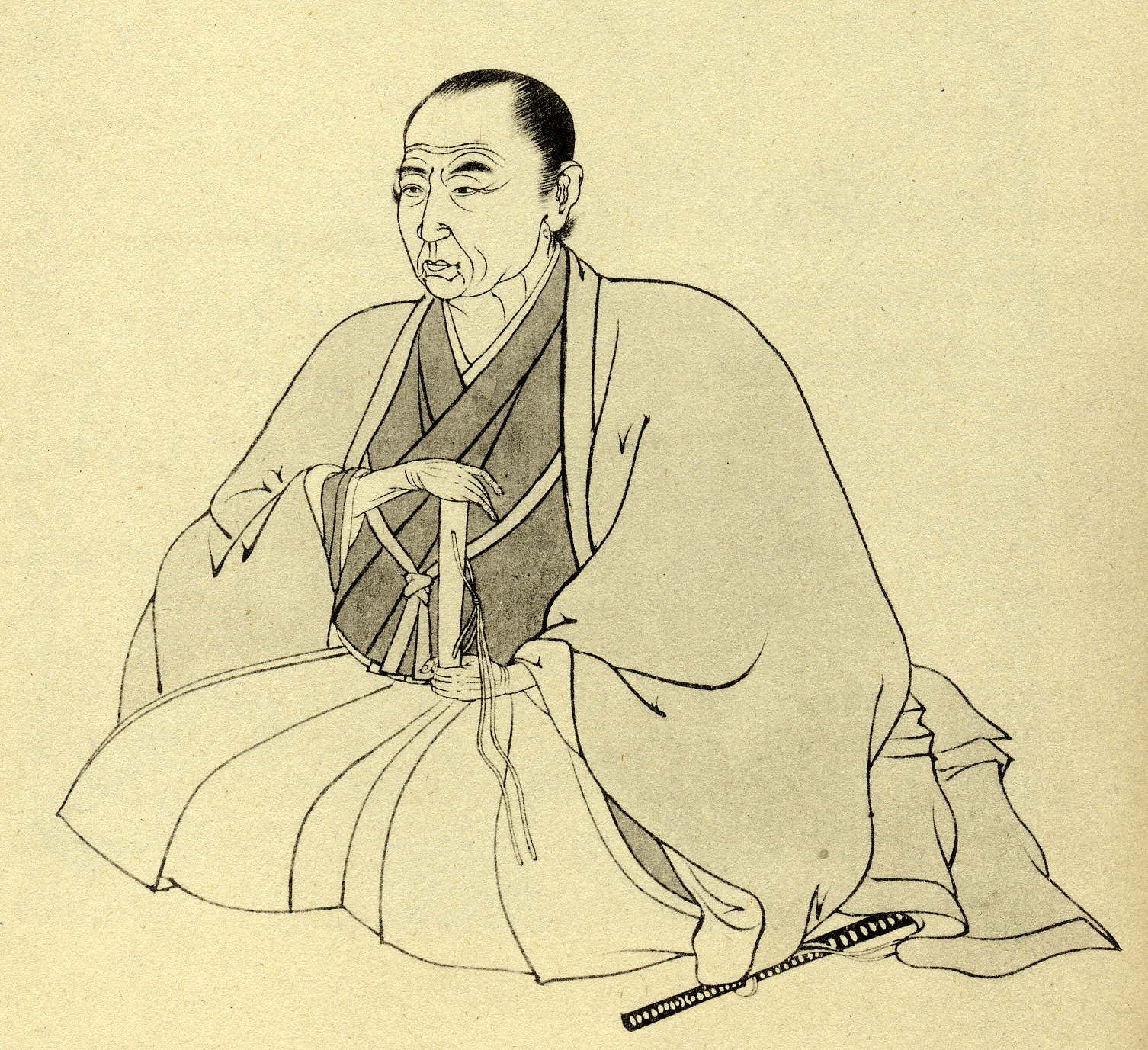 Motoori Taihei（本居太平）was a japanese scholar of Kokugaku. He was a student and Adoption of Motoori Norinaga.